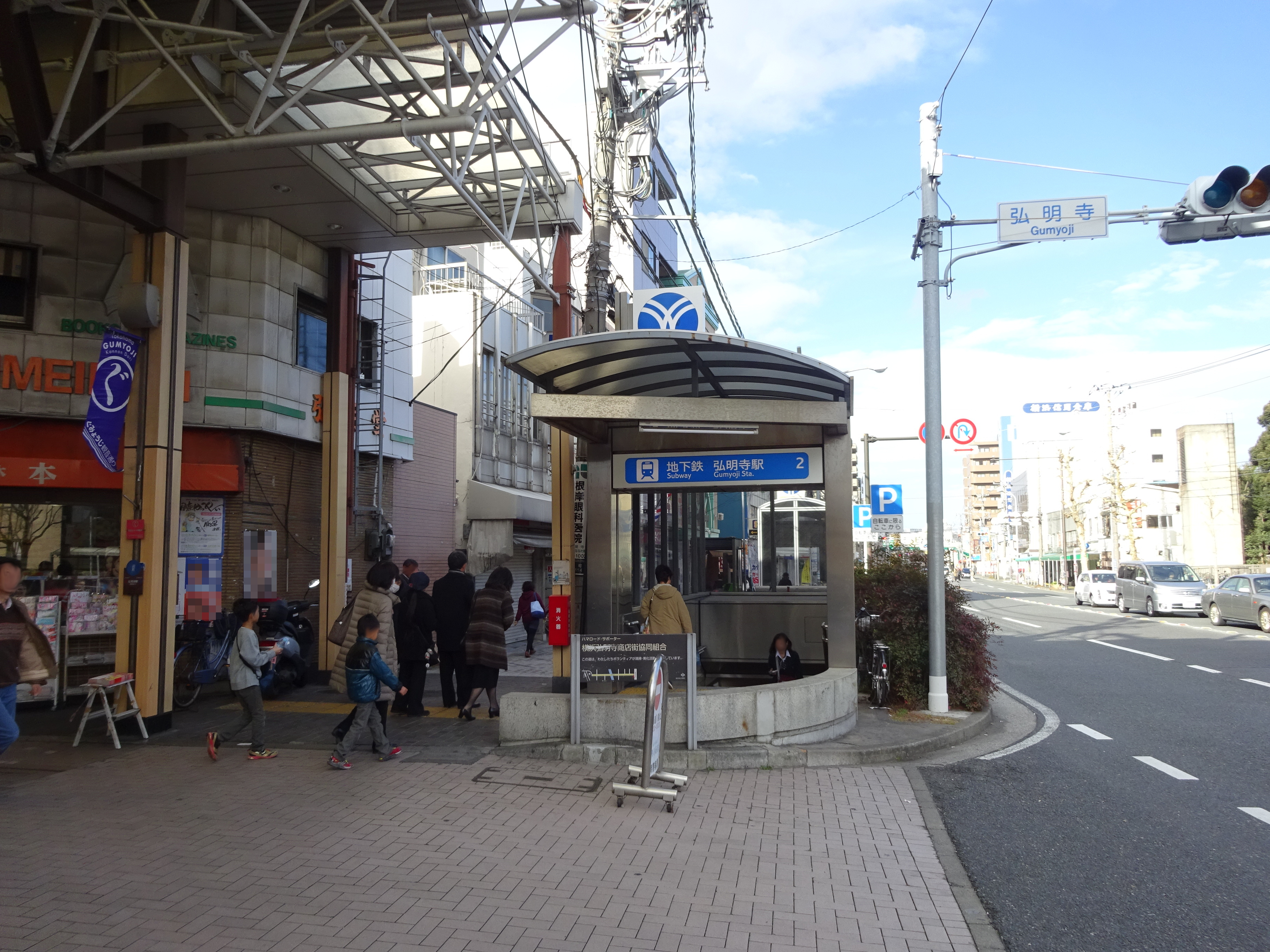 Gumyōji Station (Yokohama Municipal Subway)